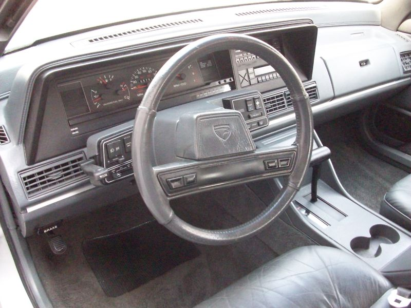 1992 Eagle Premier ES Limited dashboard